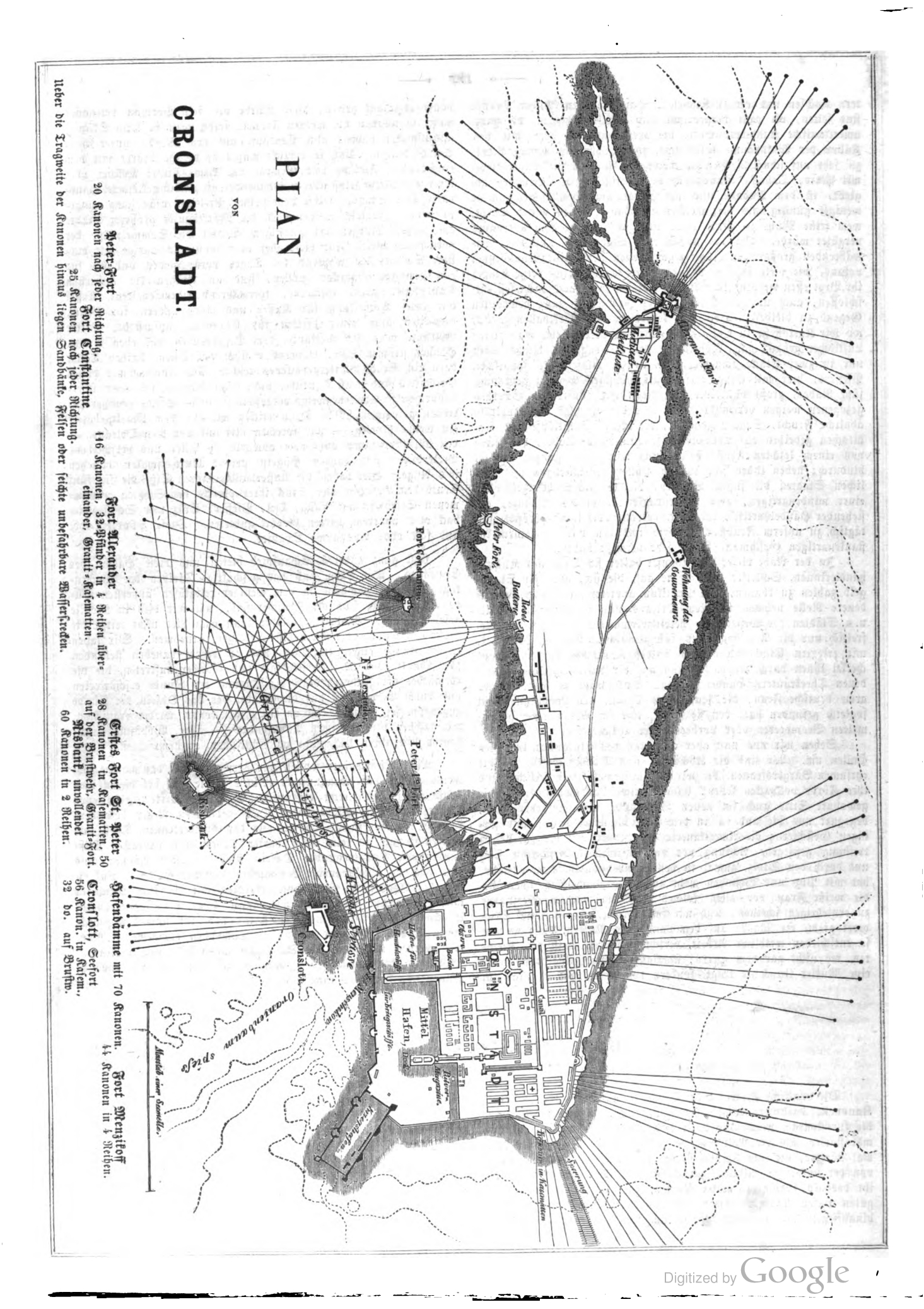 Page 200 from journal Die Gartenlaube for 1854. Extracted image (if any): File:Die Gartenlaube (1854) b 200.jpg - hi res, ~2.5 MB.